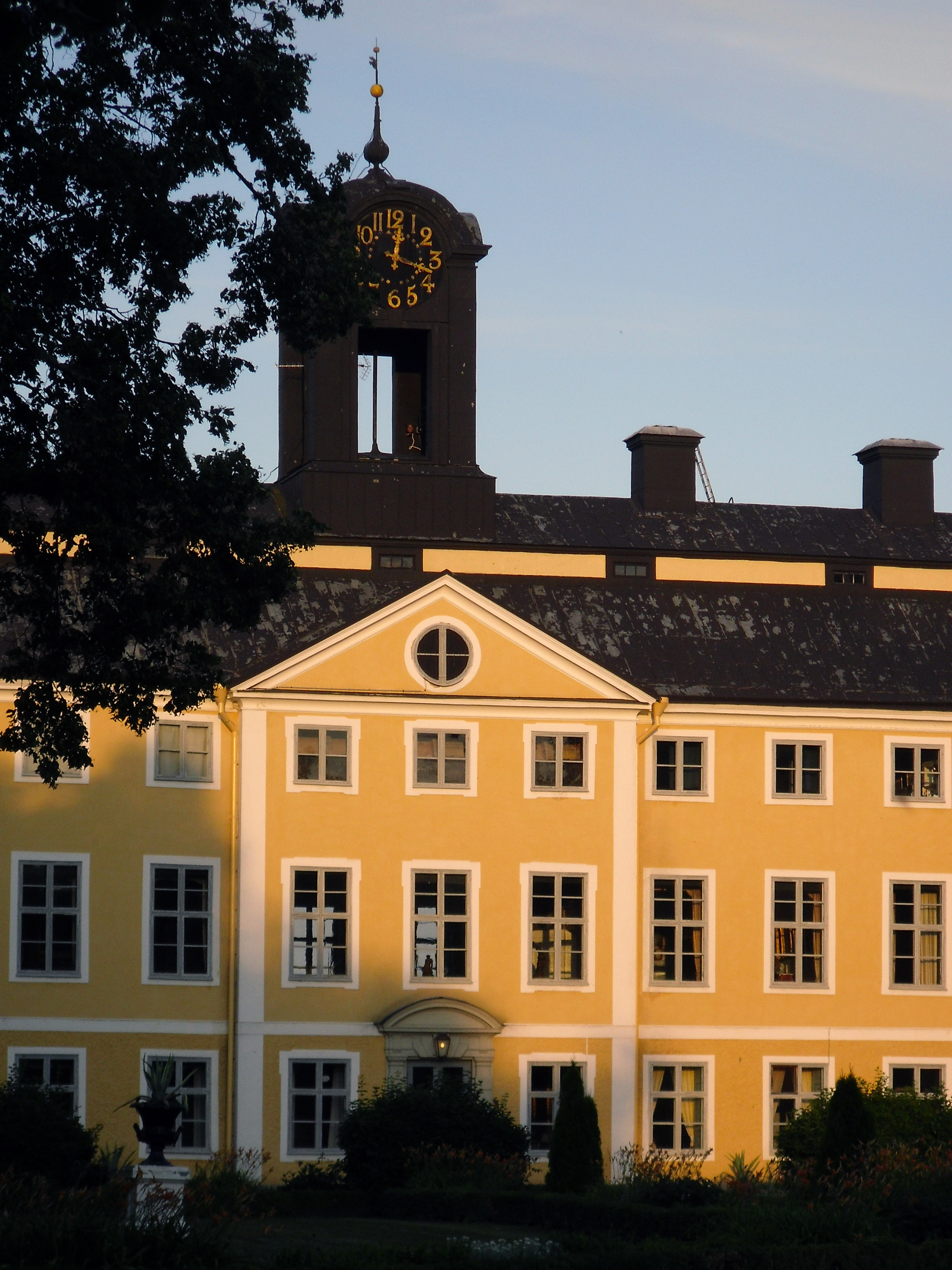 Sturefors Palace, Sweden